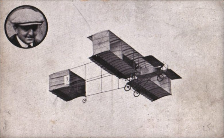 1909 Anvers Aviation Meeting in 1909. Henri Rougier flying a Voisin biplane with a Gnôme Oméga engine. Original photographer and copyright holder is unknown. Image is located at Pedro Amaral, Early aviators, Henri Rougier. Image is Public Domain because it is over 100 years old, and was first published in 1909.